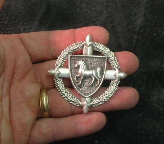 Badge Societas Ars Equestri